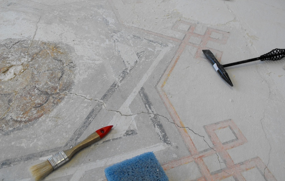 Old wall paintings discovered in the London - Gordon house, in the old "Moshava" Rishon - Lezion.